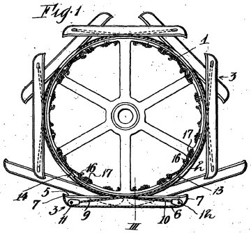 Main diagram illustrating Frank Bottrill's 1912 U.K. patent for his "ped-rail" wheel for heavy vehicles.